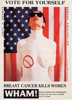 This eye-catching political poster designed, shot, and modeled for by Matuschka was used in numerous contexts by the breast cancer advocacy group W.H.A.M.!